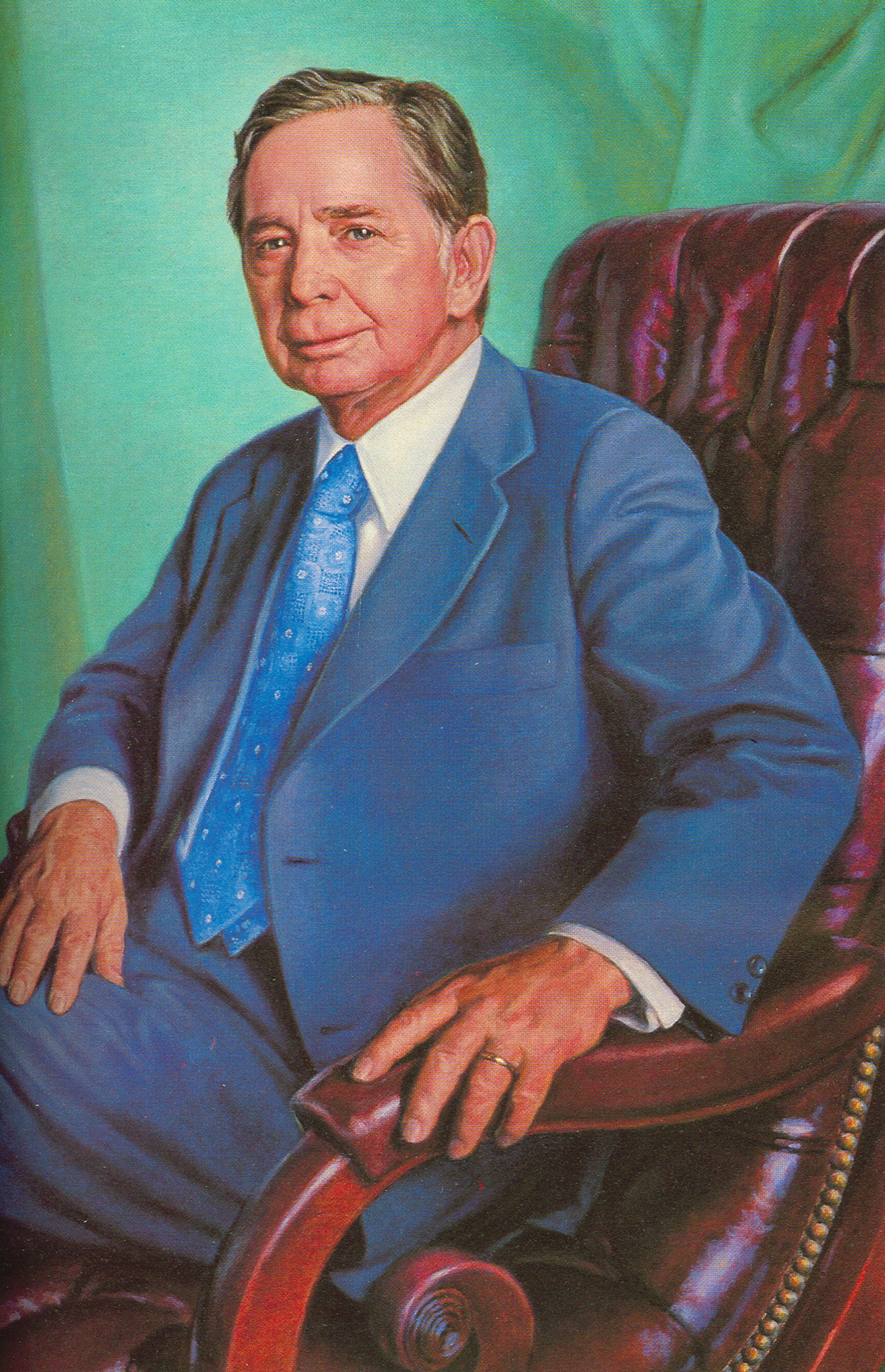 Portrait of Carl Albert, painting by Charles Banks Wilson